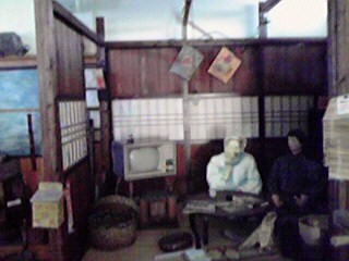 This is a photo at Isobe folk museam in Shima,Mie,Japan.